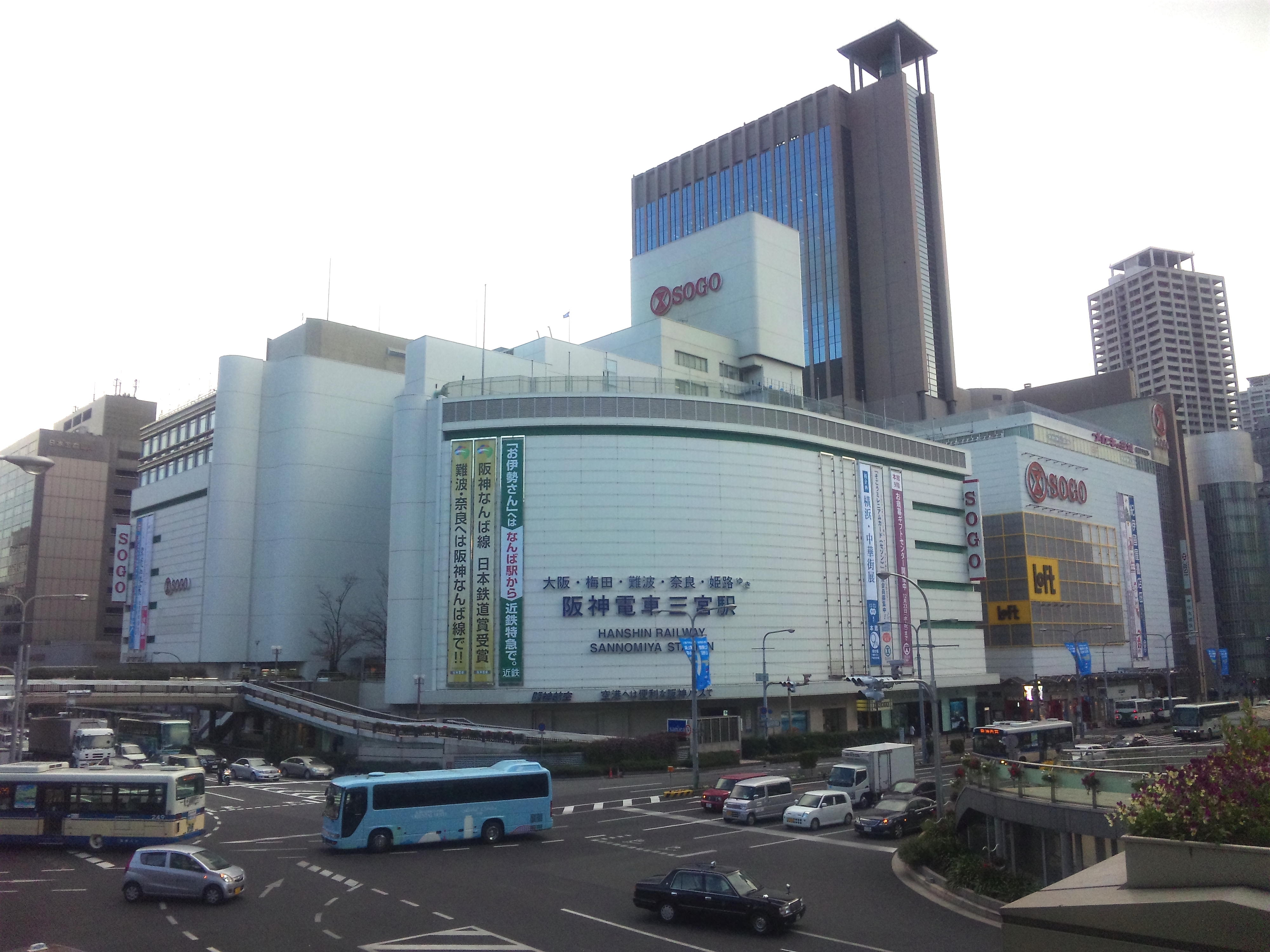 Sogo department store Kobe branch and Hanshin Electric Railway Sannomiya Station.